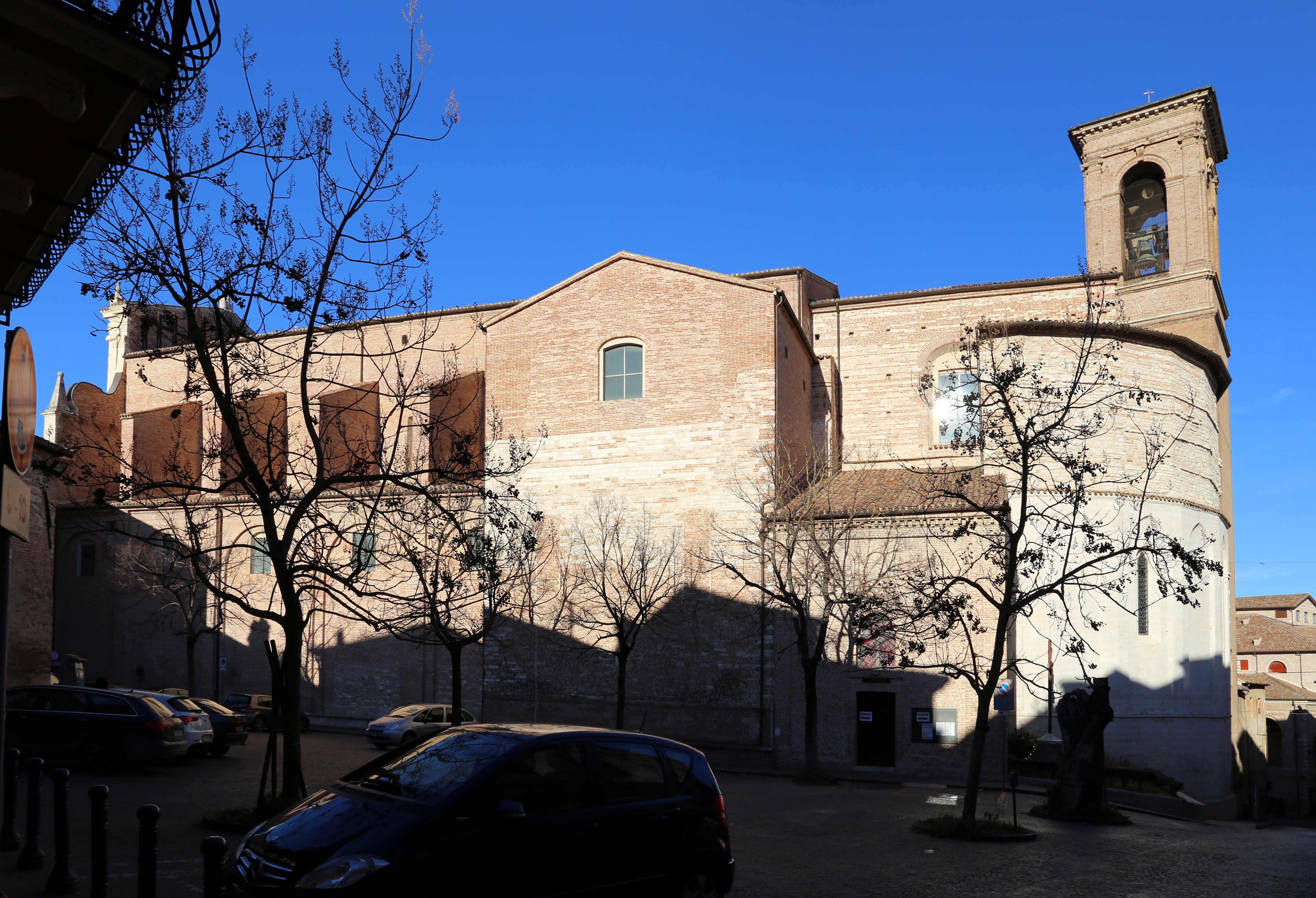 Fabriano